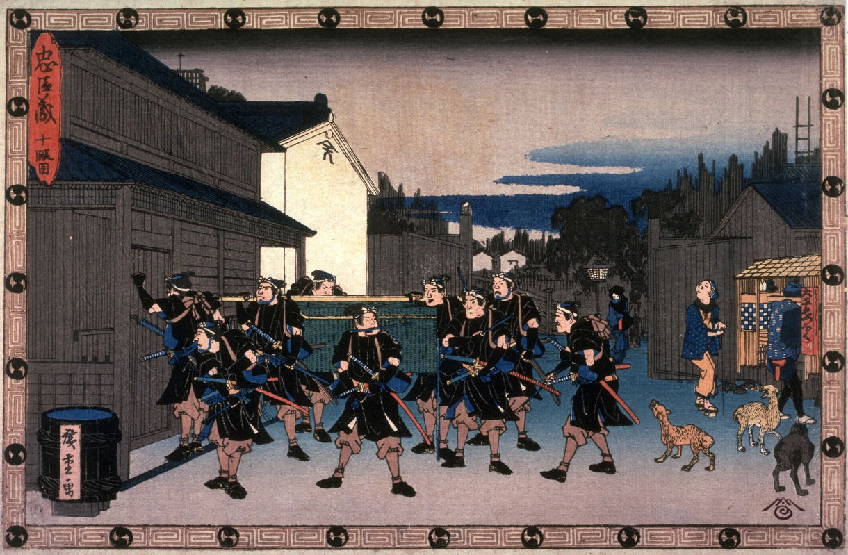 Act 10 (Judamme) from the play Storehouse of Loyalty (Chushingura). Act l0: A Night Scene outside the House of the Merchant Amakawa-ya Gihei at Sakai.